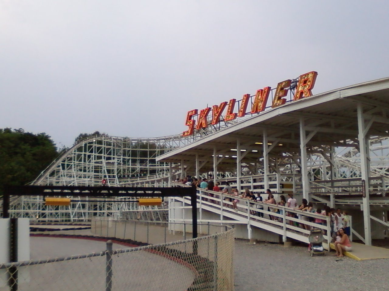 Skyliner rollercoaster at Lakemont Park, Altoona, PA